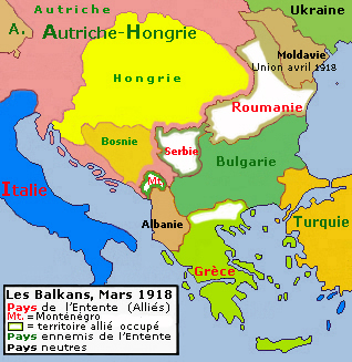 Historic map of Balkan peninsula, March 1918